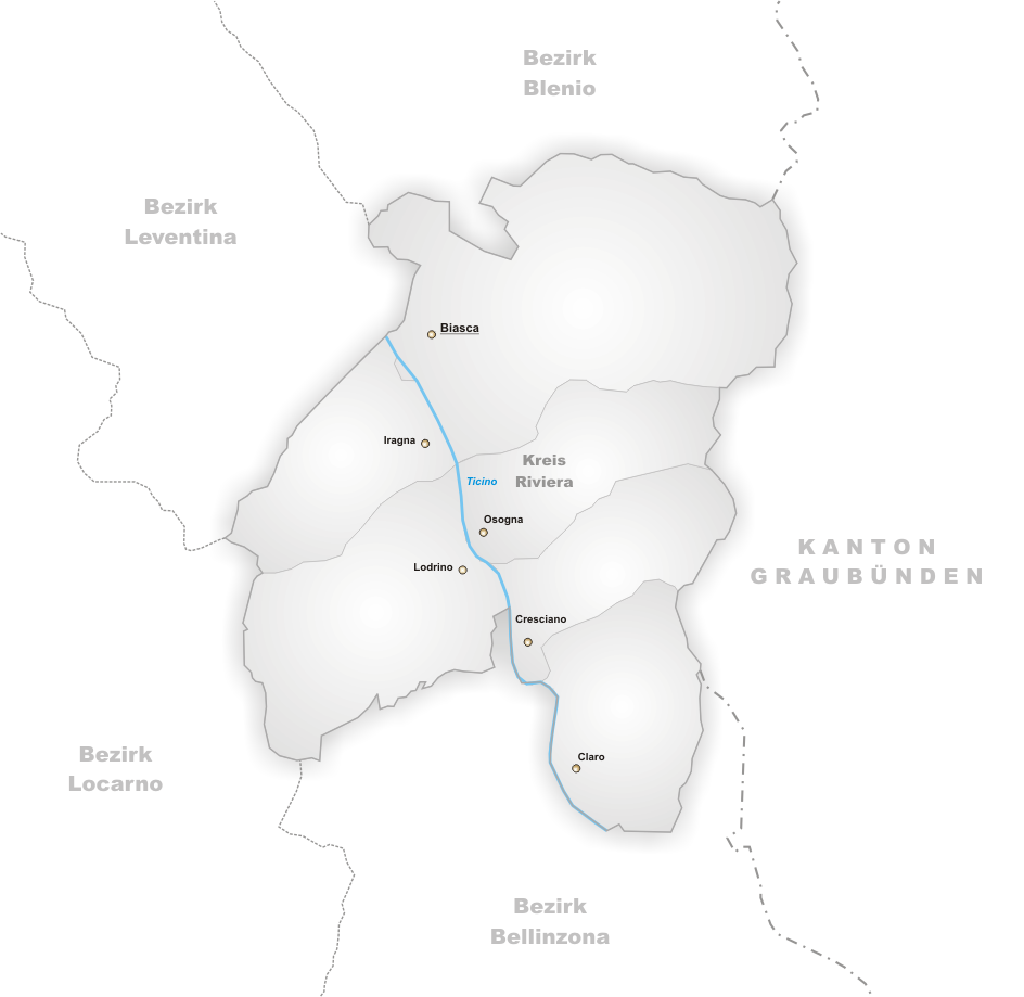 Municipalities of District Riviera